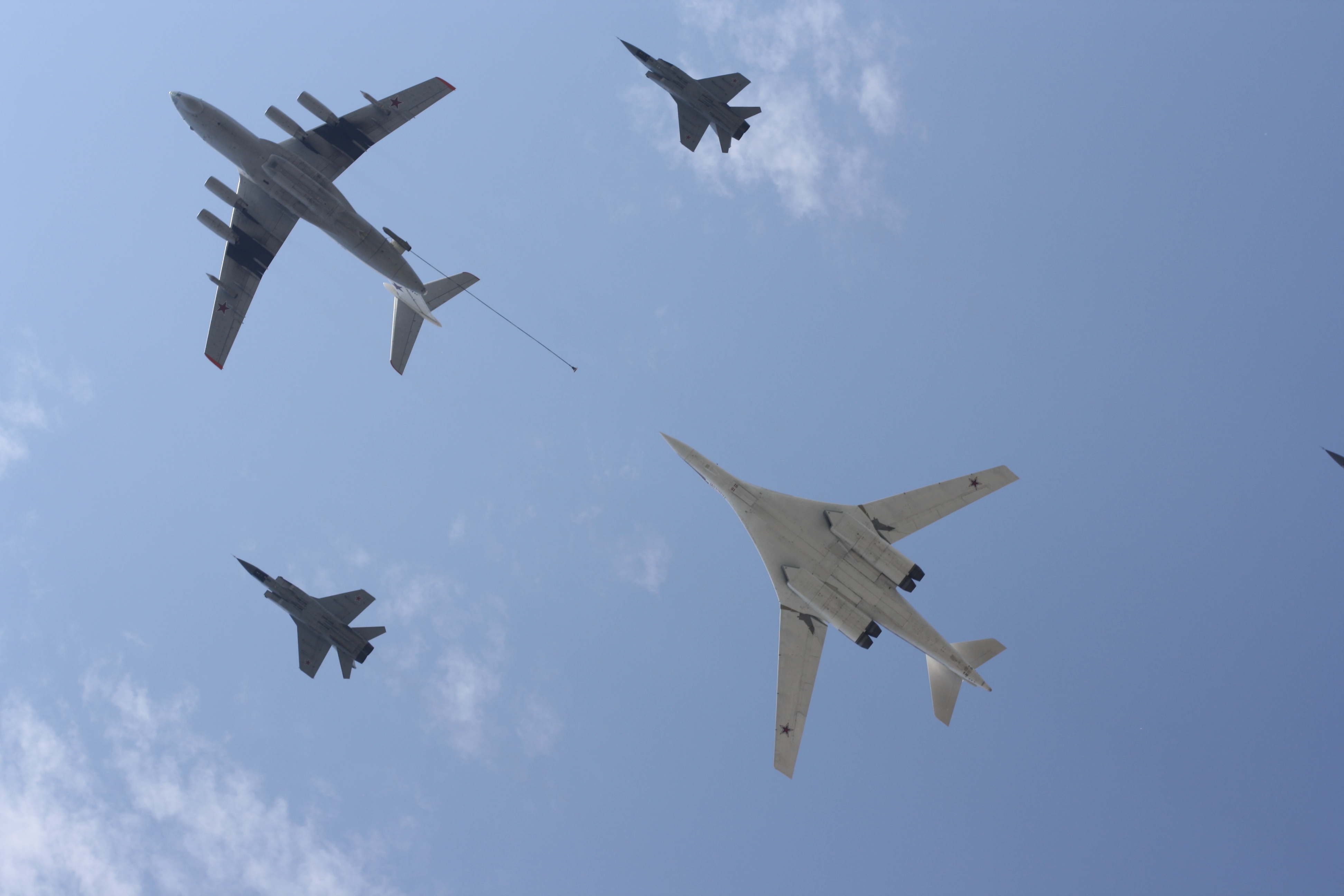 Planes in Russian Parad 2010